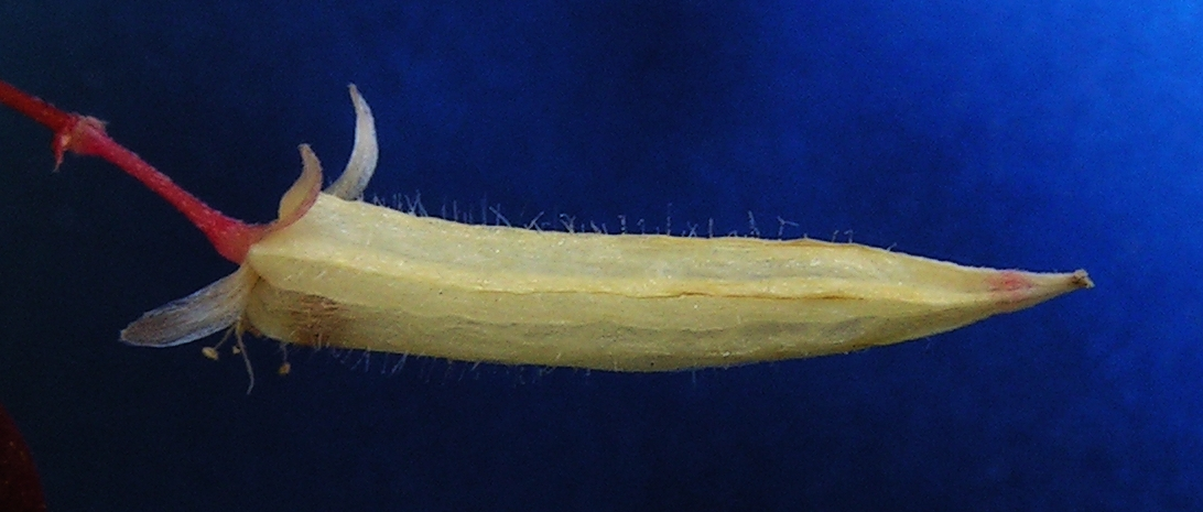 The fruit of cultivated Oxalis stricta. Moscow region, Russia.